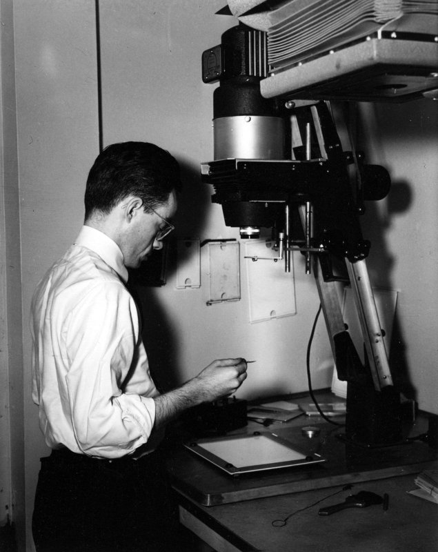 Enlarging a B/W Negative, 1950 or 1951. Using my Omega D2 enlarger in 1950 or 1951, I had a variety of devices to dodge and burn on almost every negative. After the exposure it took 2-3 minutes to see the result after processing through developer, short stop, and hypo trays. Most of my enlargements were 8x10.